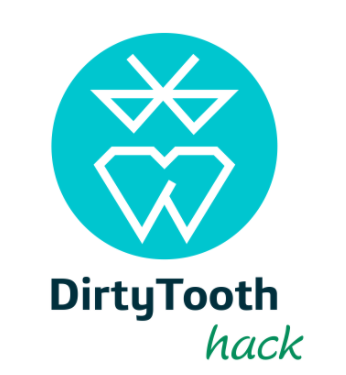 DirtyToothLogo